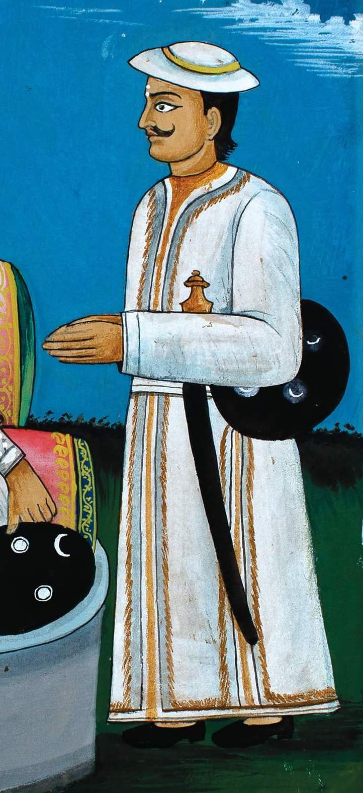 King of then Gorkha later Nepal, Prithvi Narayan Shah (1723-1775) with Senapati Shivaram Singh Basnyat (died 1747)